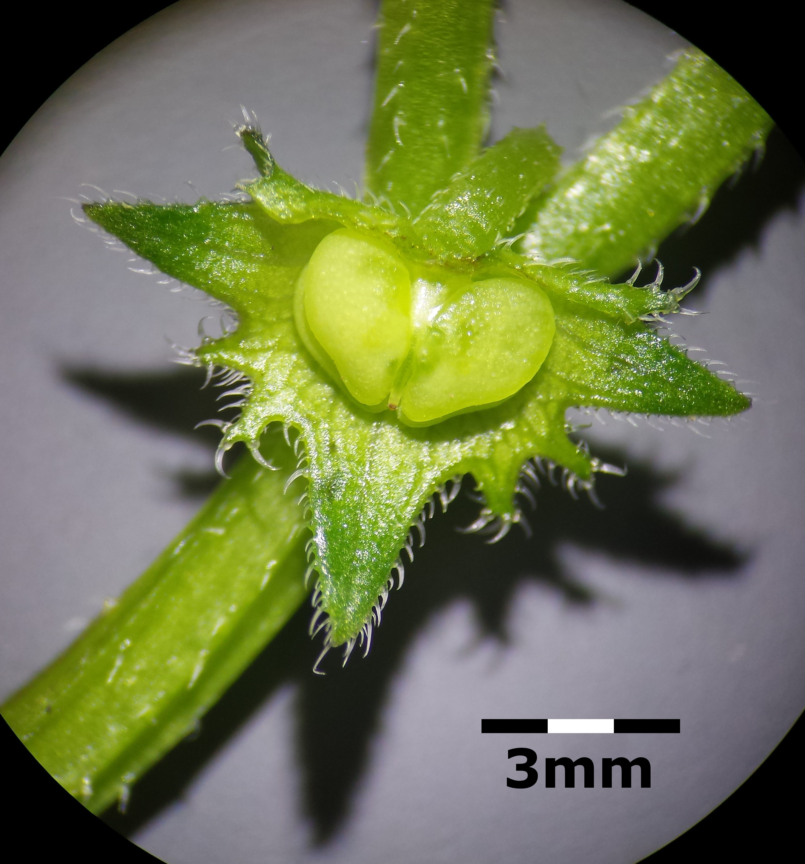 Fruit, the upper sepal was removed Taxon: Asperugo procumbens (sensu Fischer et al. EfÖLS 2008) Location: Donaufeld, Vienna-Floridsdorf - ca. 170 m a.s.l. Habitat: grain field